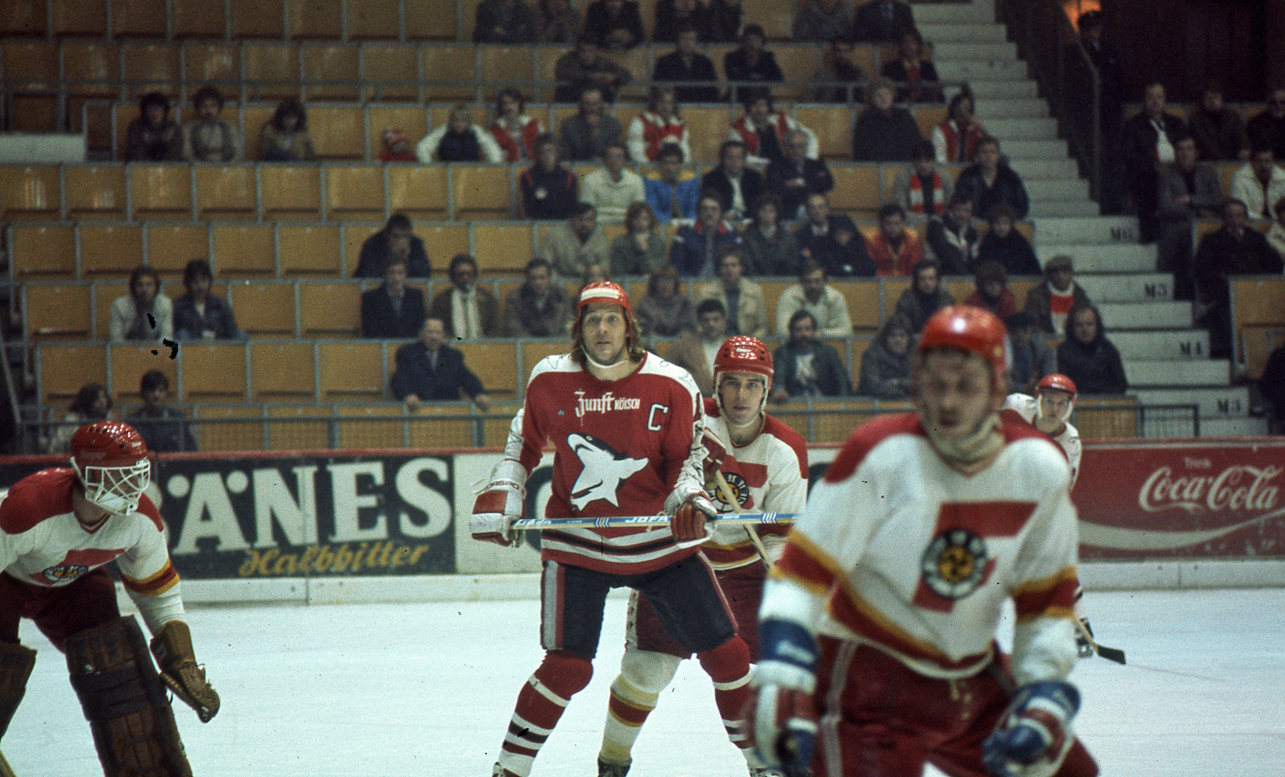 German hockey play Erich Kühnhackl, 1977